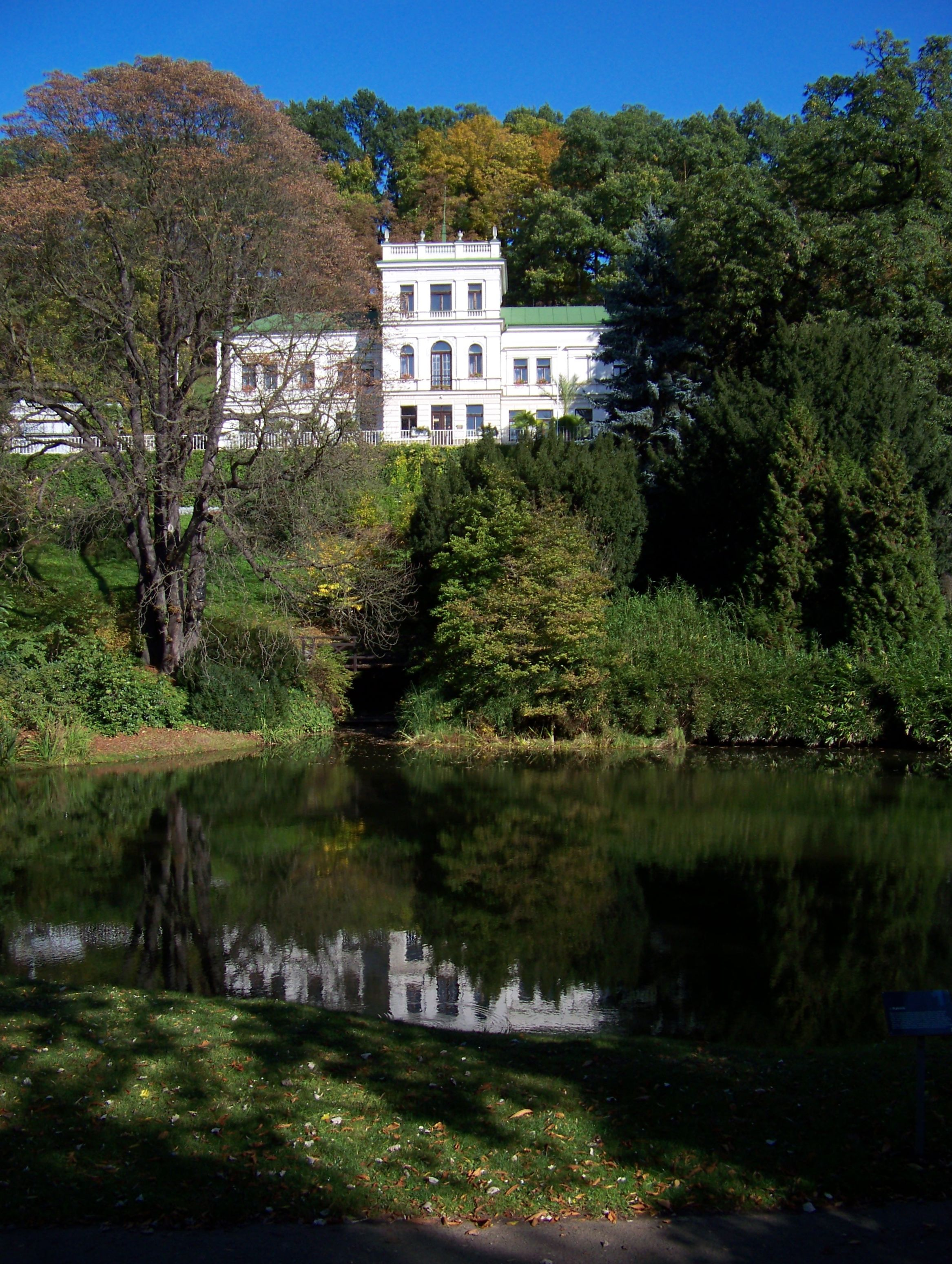 Prague-Malešice, the Czech Republic. Pod Táborem street, a pond and a villa in the botanical garden.